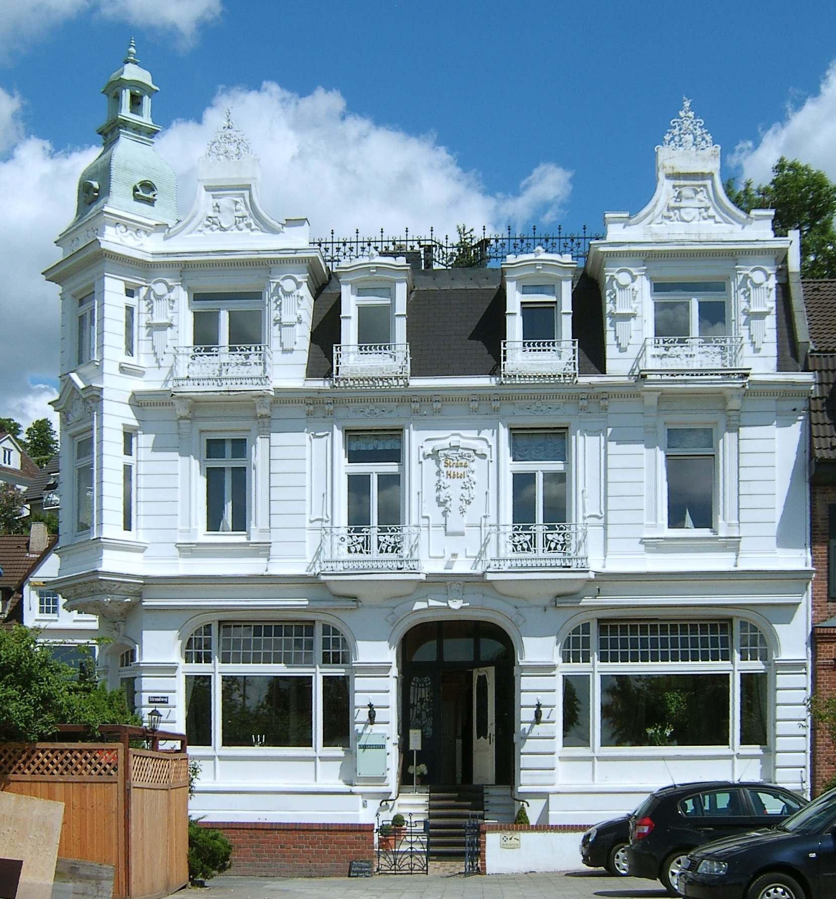 Das Strandhotel am Strandweg 13 in Blankenese This is a photograph of an architectural monument.